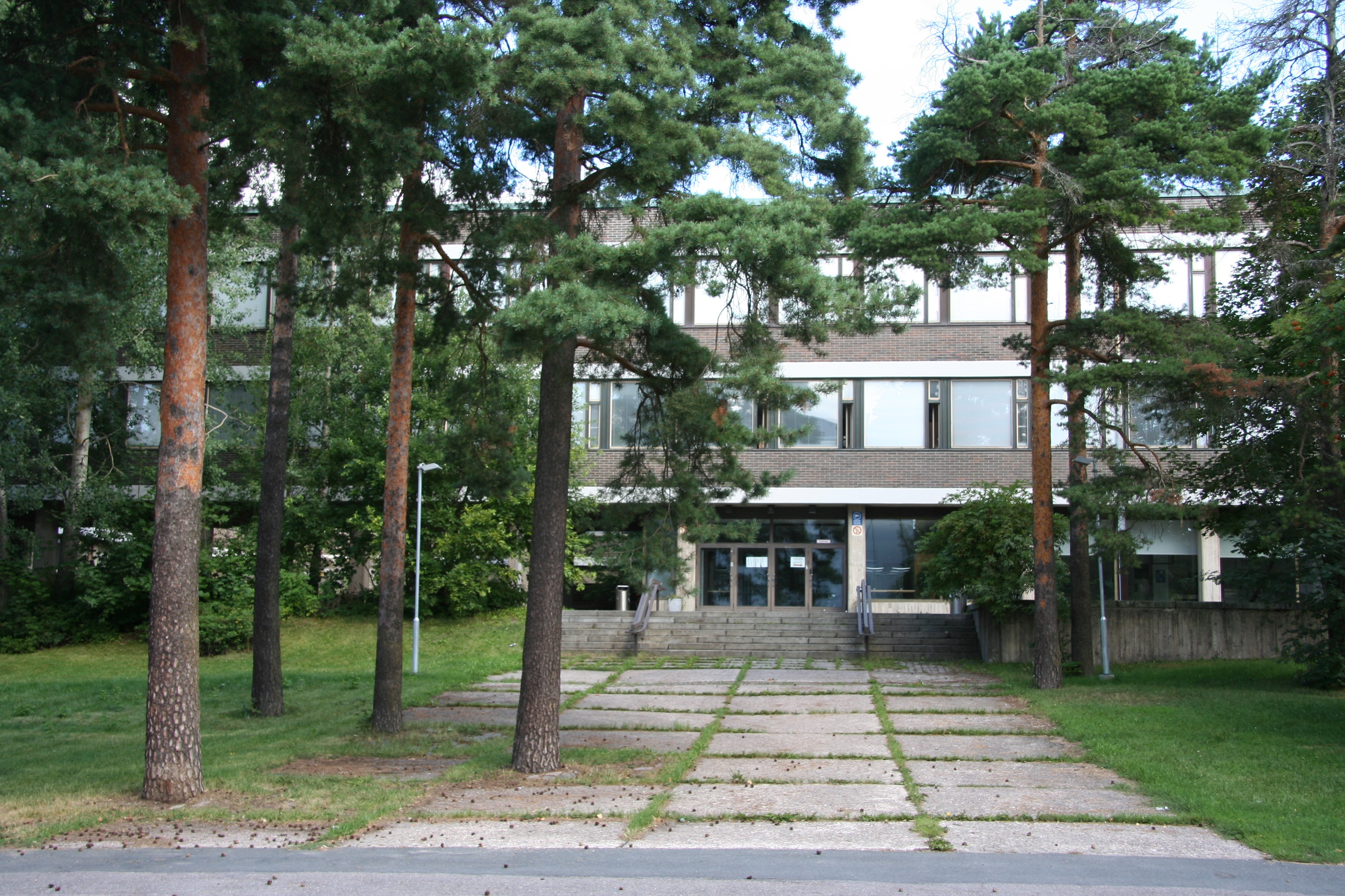 Tech school in Käpylä, Helsinki